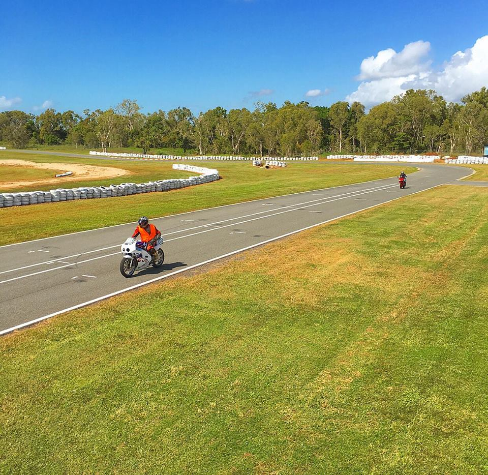 Motorbike racing at the Proserpine Raceway in May 2018